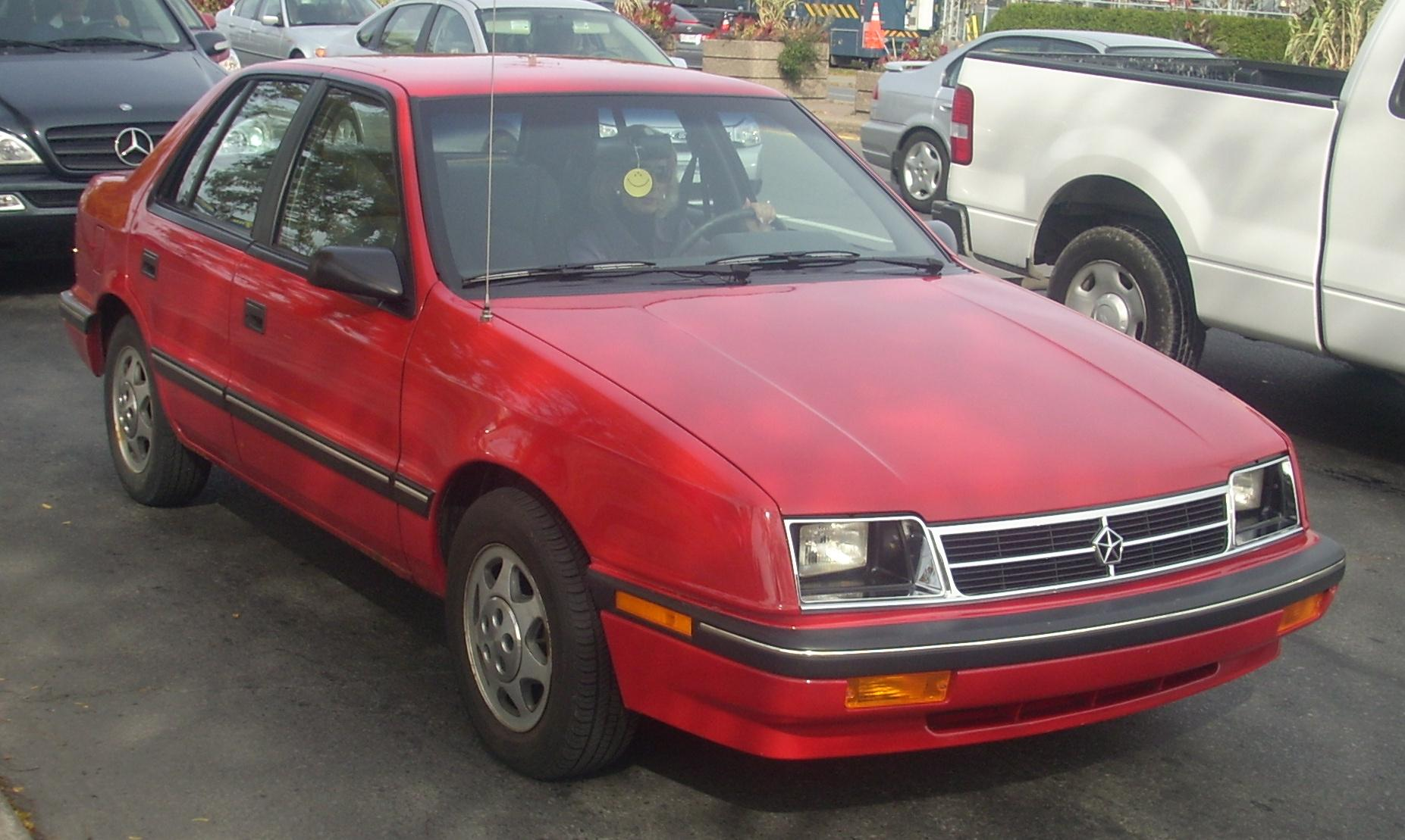 1987-1988 Dodge Shadow photographed in Montreal, Quebec, Canada.